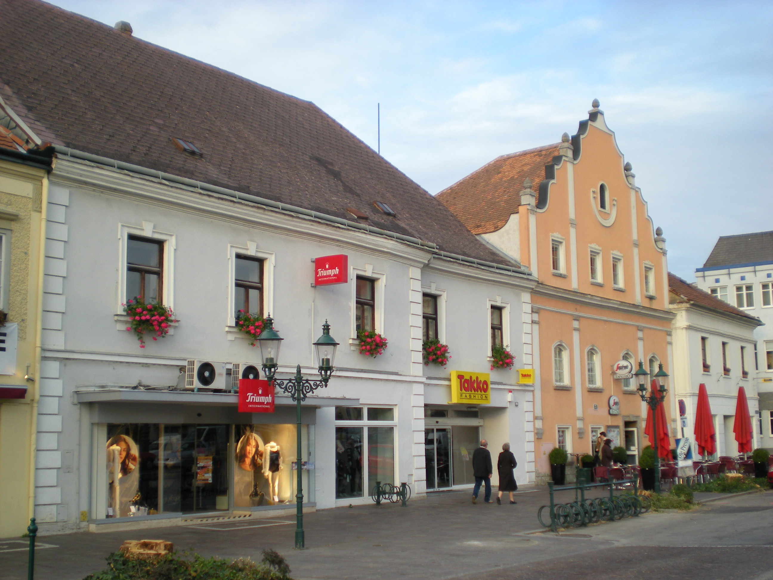 Houses at Main square of Tulln, Lower Austria